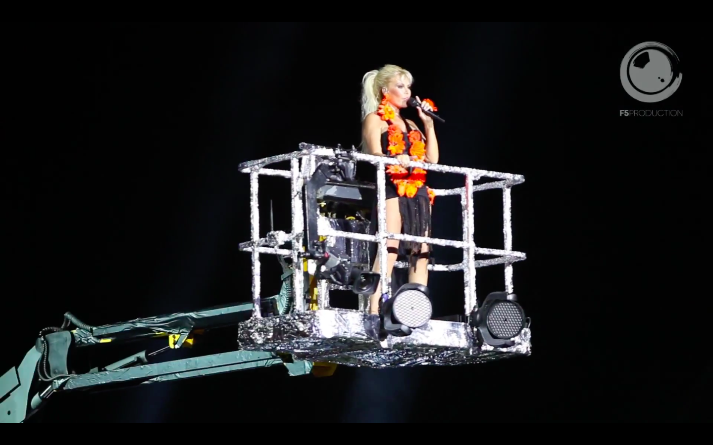 Turkish singer Ajda Pekkan singing on a crane machine during her concert at Kuruçeşme Arena, Istanbul.